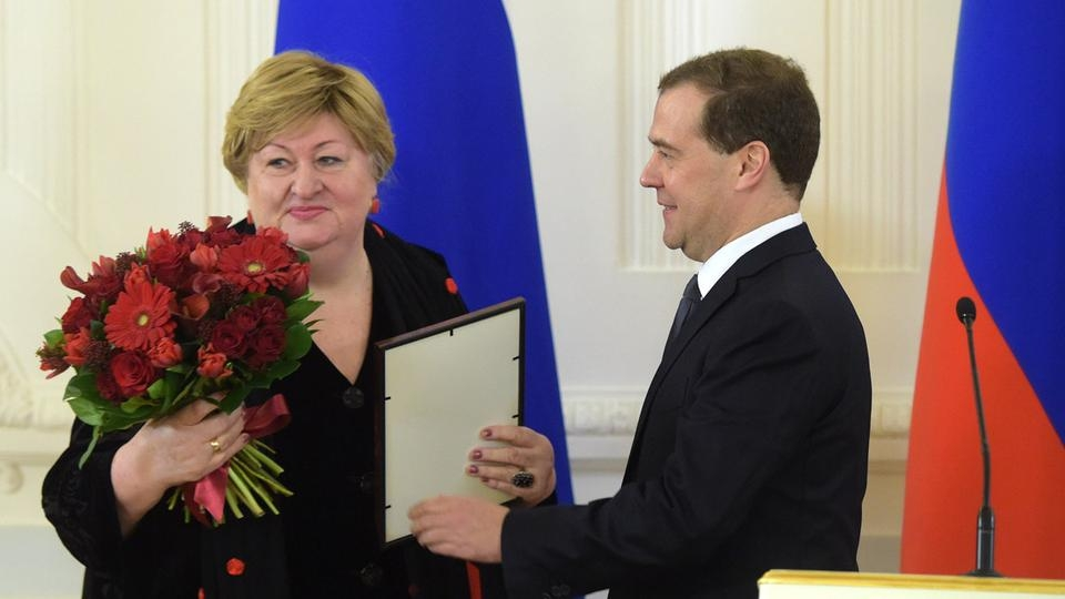 Dmitry Medvedev with Tatyana Androsenko, editor-in-chief of Murzilka magazine.